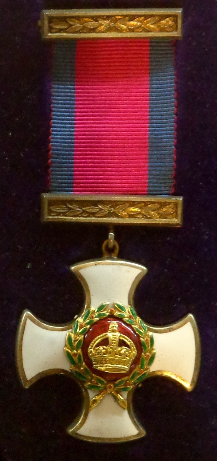 Distinguished Service Order, badge. United Kingdom. The exhibition of the Tallinn Museum of Orders of Knighthood, Estonia.